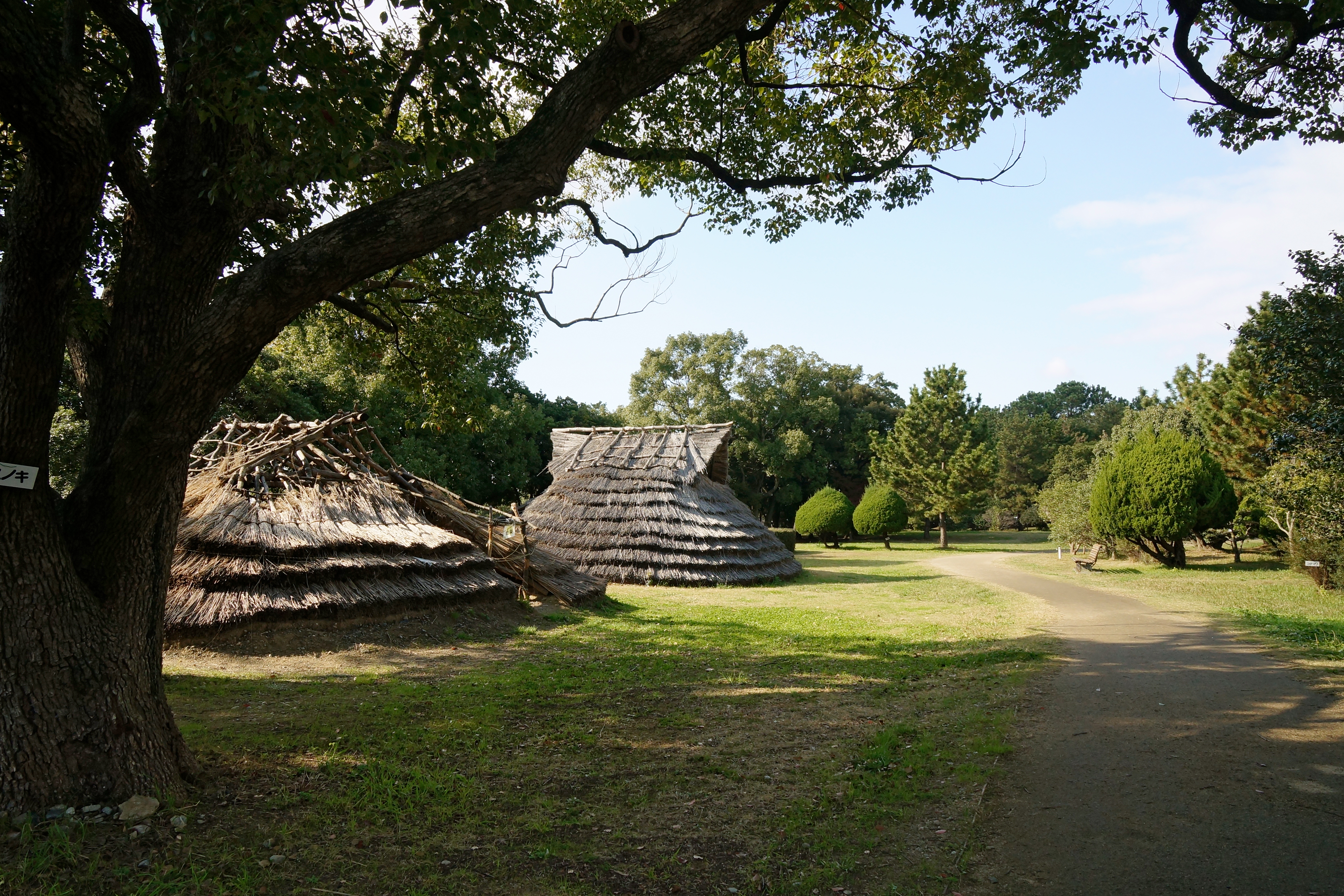 At Onaka Ruins in Harima, Hyogo prefecture, Japan.